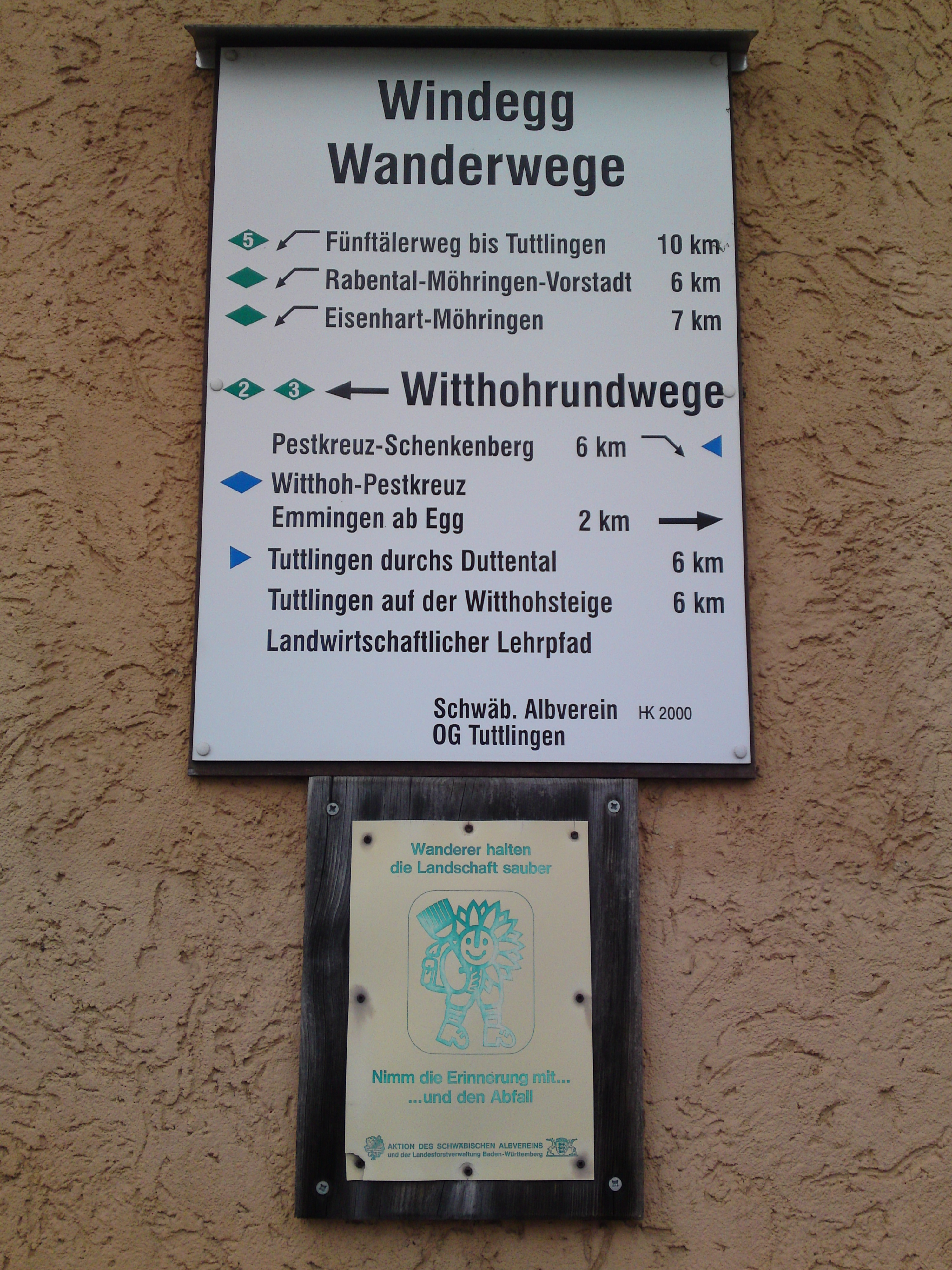 Trails on the Witthoh.